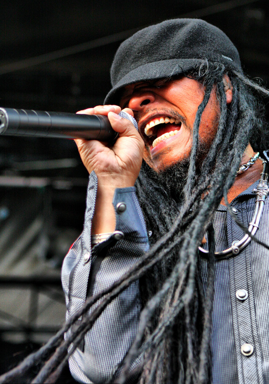 Maxi Priest performing in January 2011.